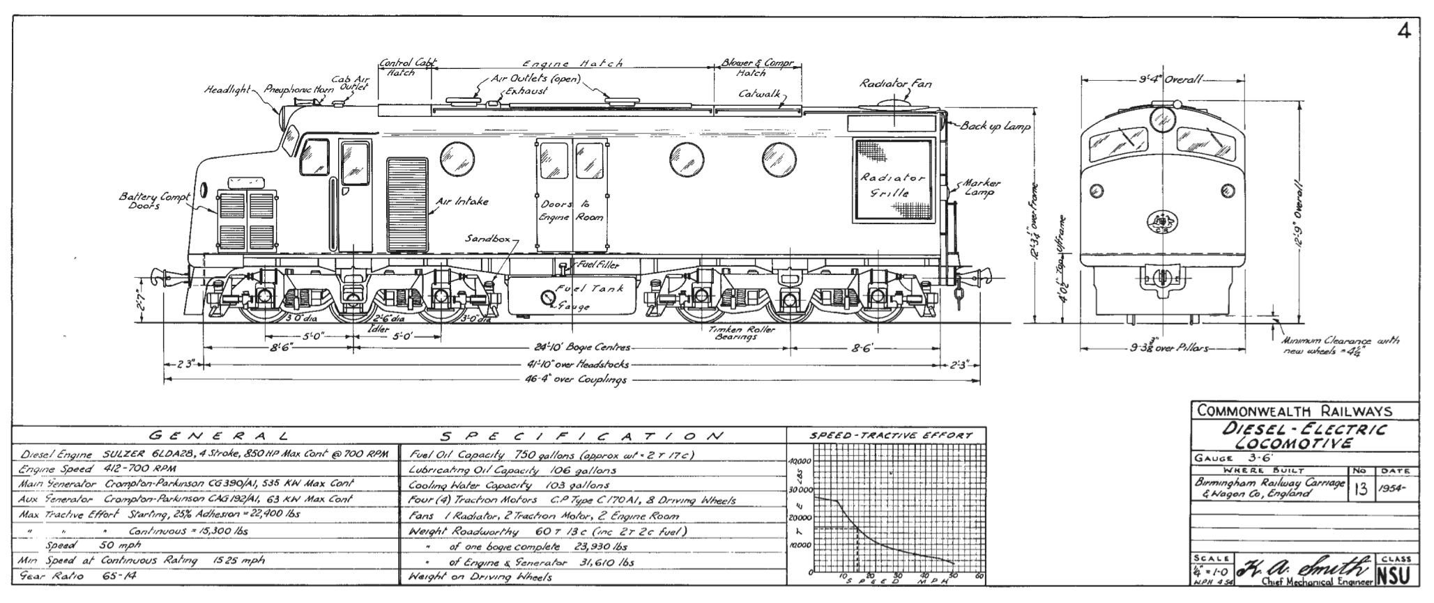 General arrangement drawing of the Commonwealth Railways NSU class diesel-electric locomotive